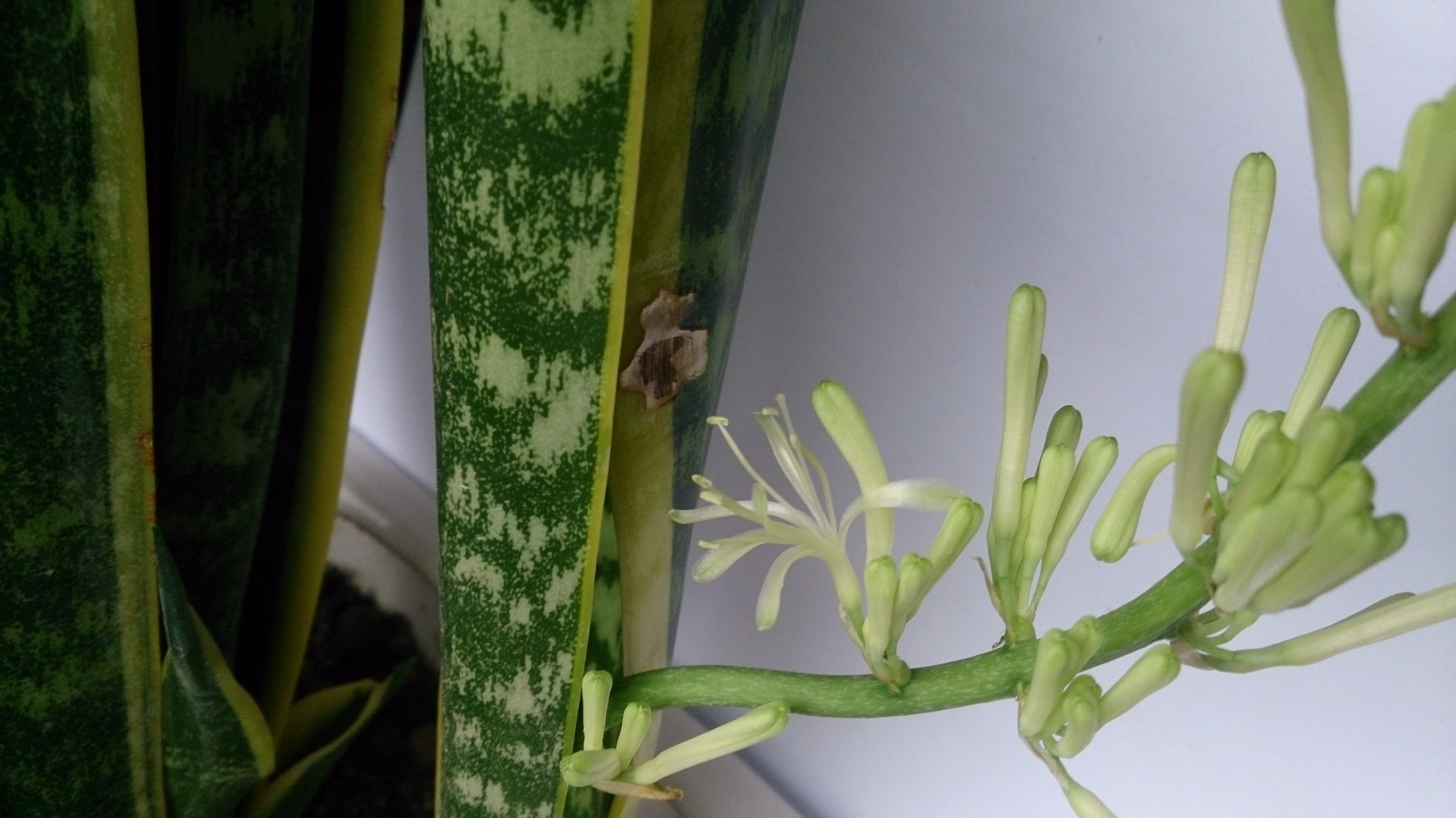 sansevieria trifasciata